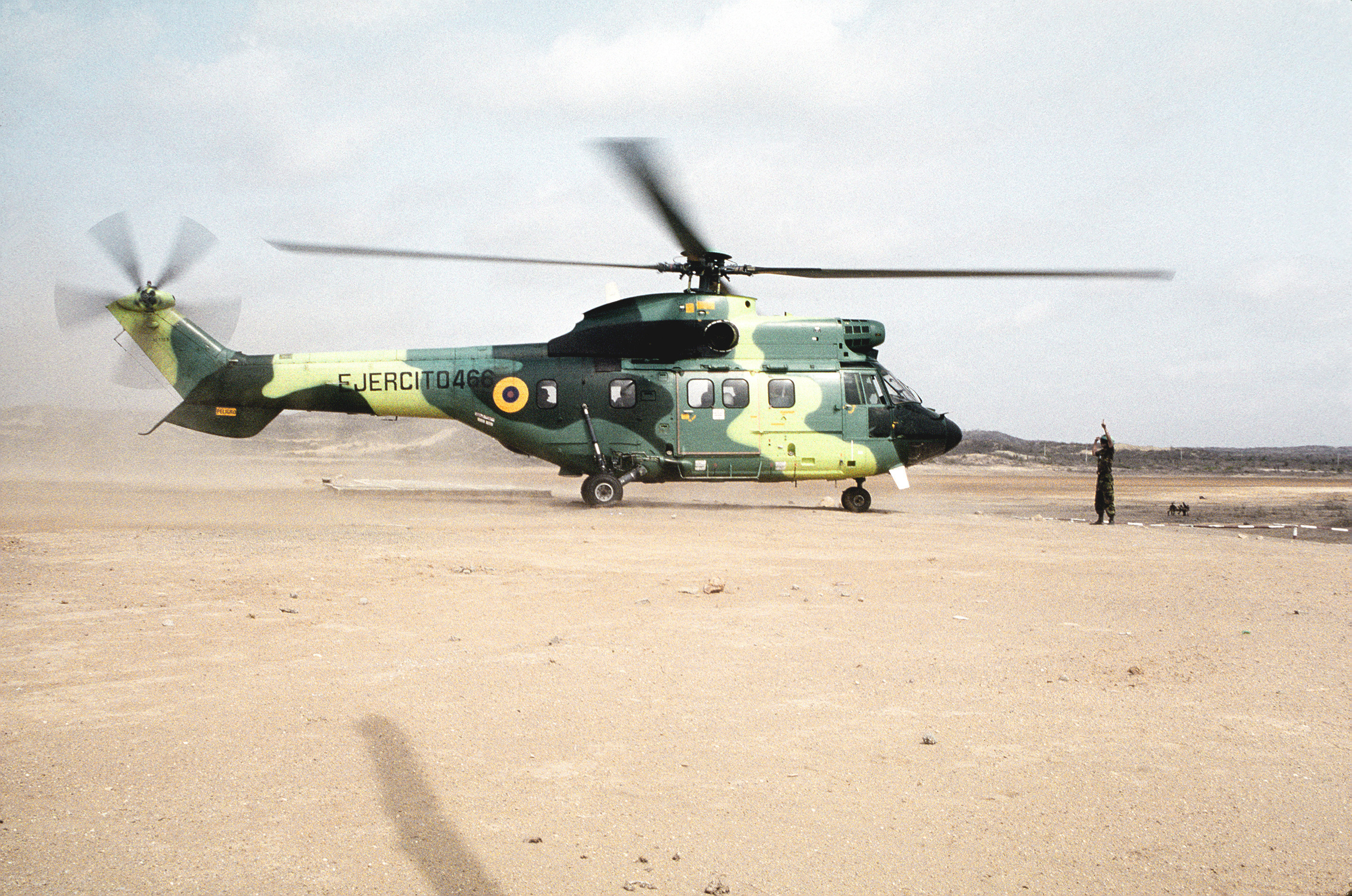 An Ecuadorian AS 532 Cougar helicopter prepares for take off as it transports U.S. and Ecuadorian Marines during Unitas XXXII, a combined exercise involving the naval forces of the United States and nine South American nations.